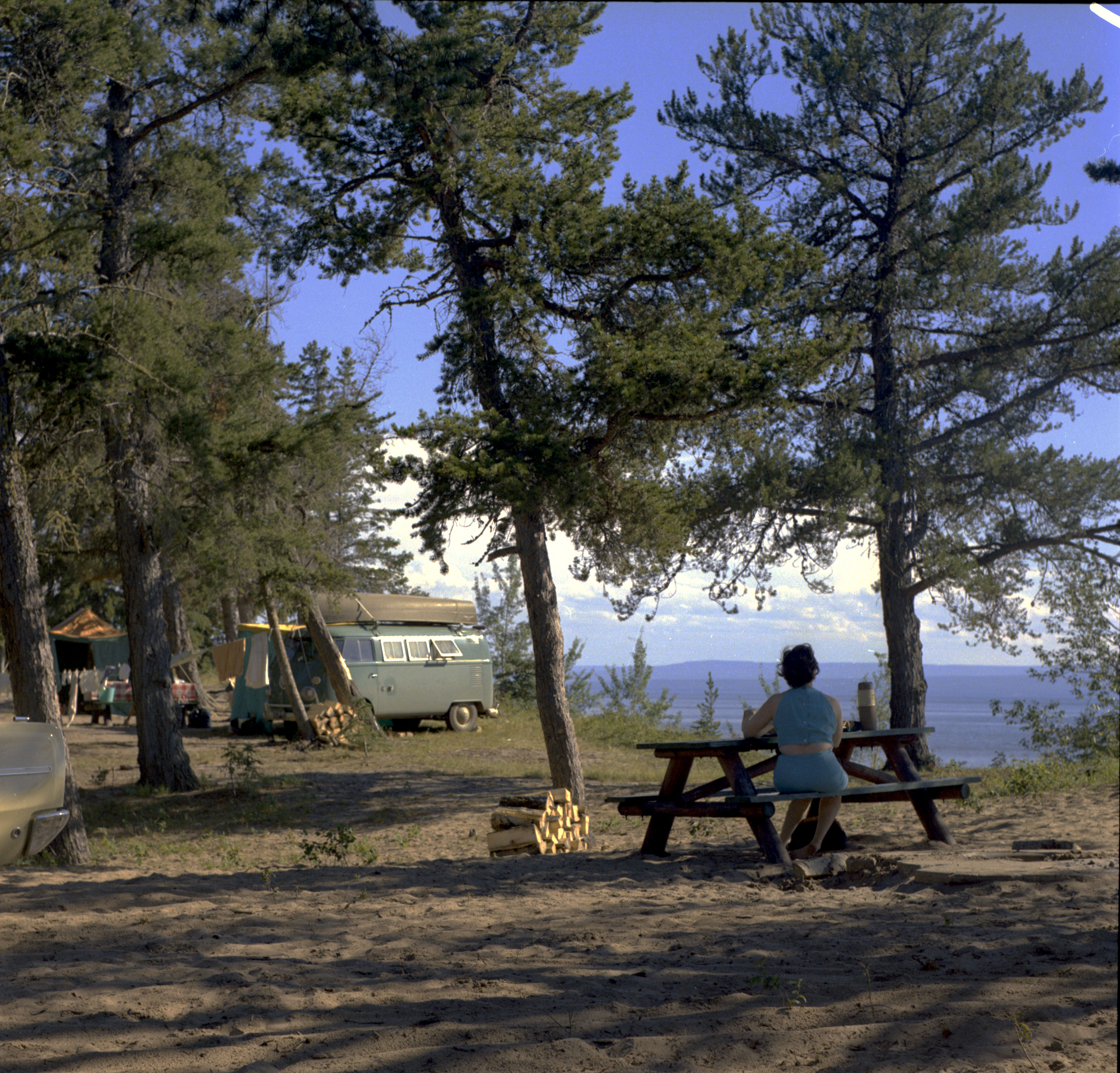 Provincial Archives of Alberta, PA8028.3.